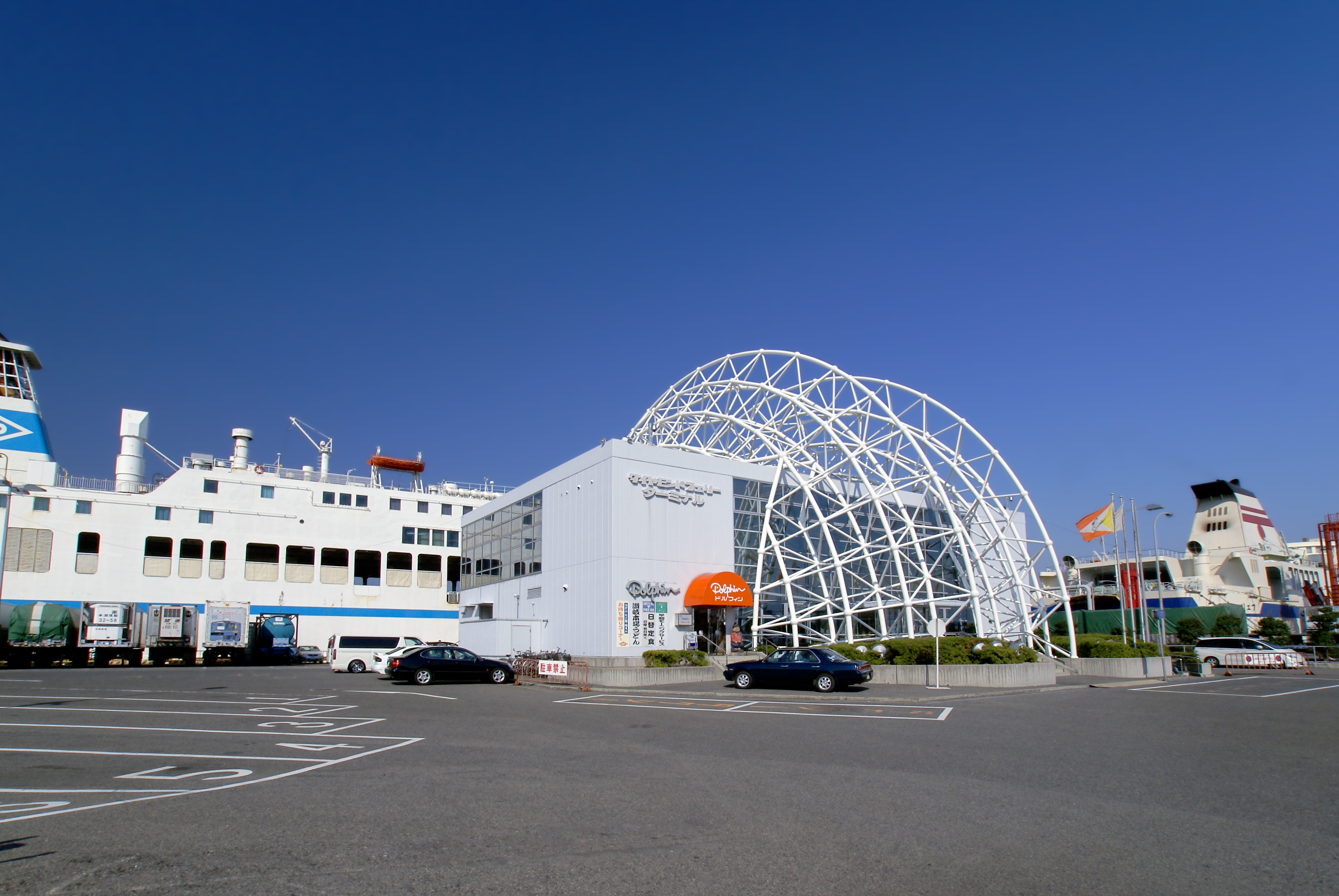 "Ferry Diamond" and "Ferry Settsu" at Rokko Island Ferry Terminal of the Kobe harbor in Kobe, Hyogo prefecture, Japan